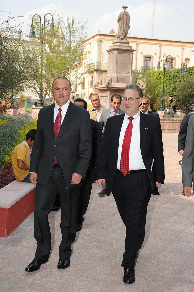 Querétaro Governor José Calzada (left) meets with U.S. Ambassador Earl Anthony Wayne (right) at the Casa de Gobierno in Queretaro on November 9, 2011.